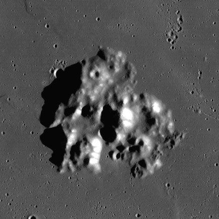 Mons Vinogradov on the Moon, between Mare Imbrium and Oceanus Procellarum. Mosaic of photos by Lunar Reconnaissance Orbiter, made with Wide Angle Camera. Size of the image is 45×45 km, north is up.